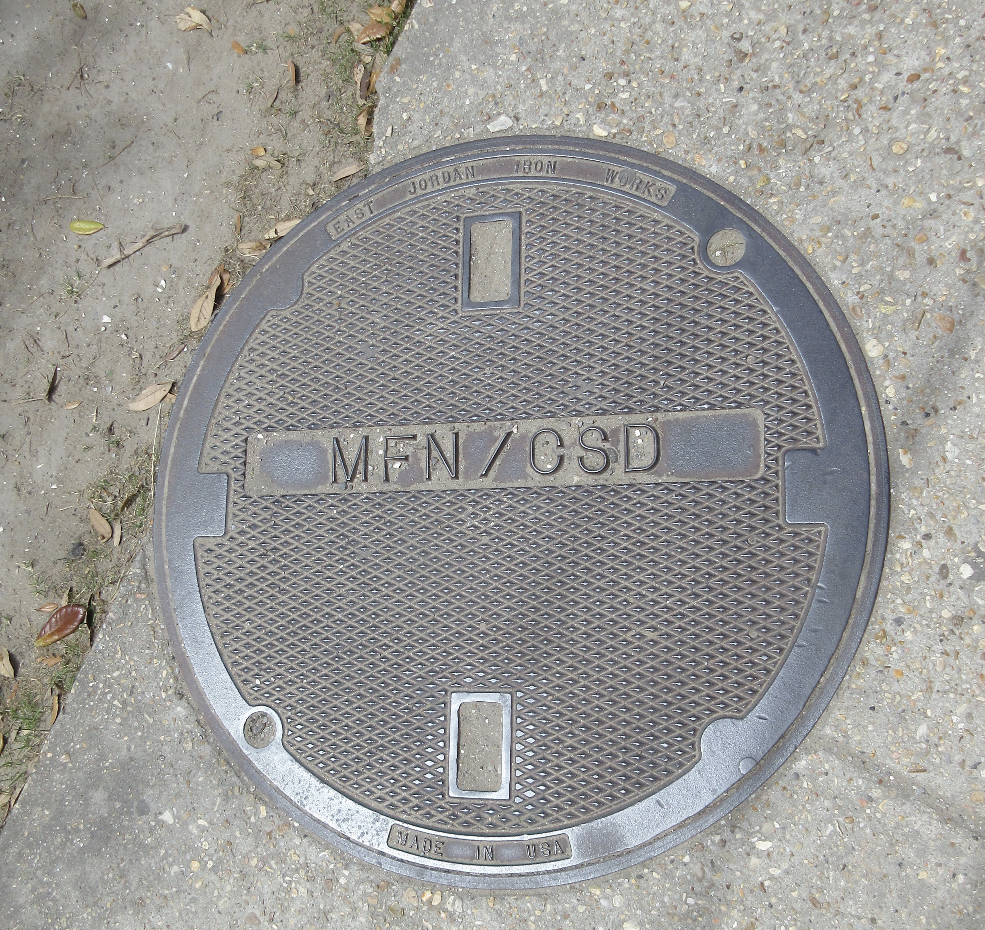 Freret Street by Tulane University, Uptown New Orleans. Manhole cover reading "MFN/CSD ". MFD was Metromedia Fiber Network (went out of business in 2002). I don't know what "CSD" indicates; possibly "Communication Services for the Deaf"?